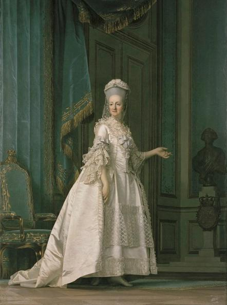 Juliane Marie of Brunswick-Wolfenbüttel, queen of Denmark